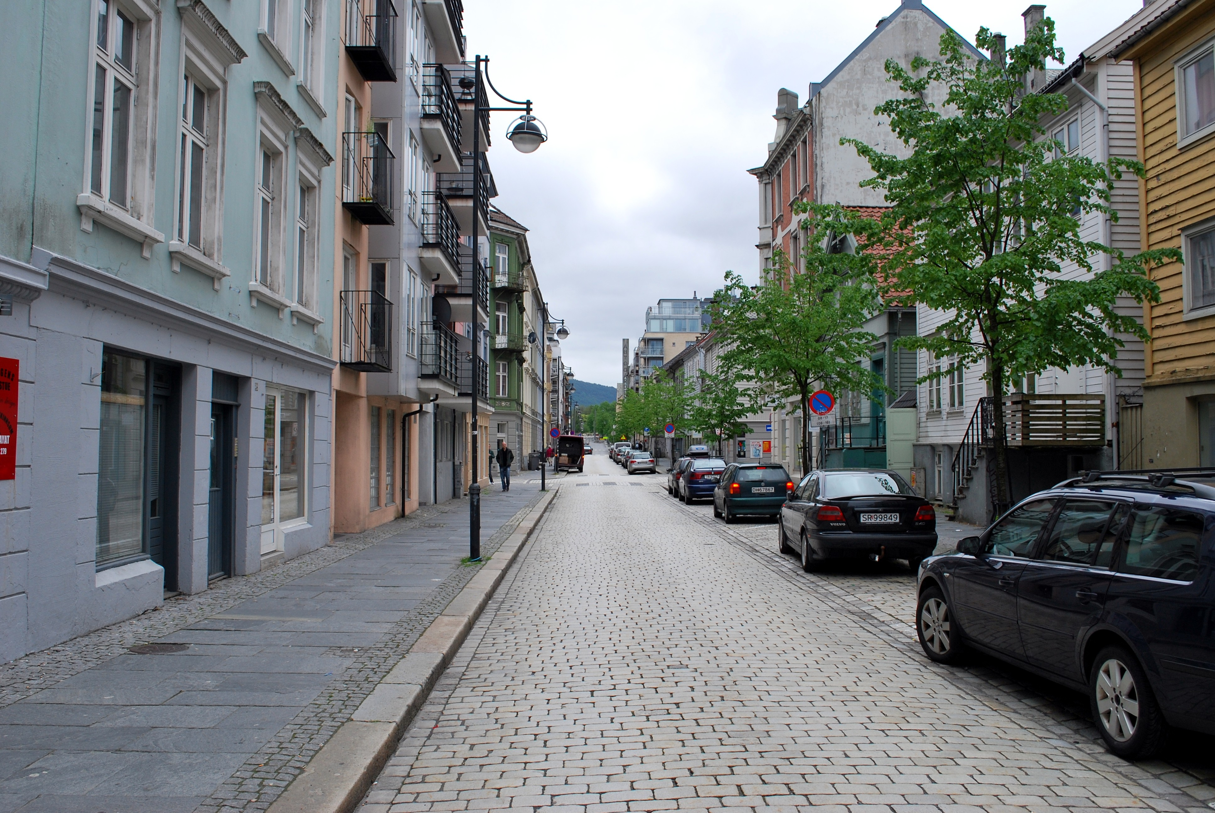 Nygårdsgaten, southern part, Bergen, Norway.